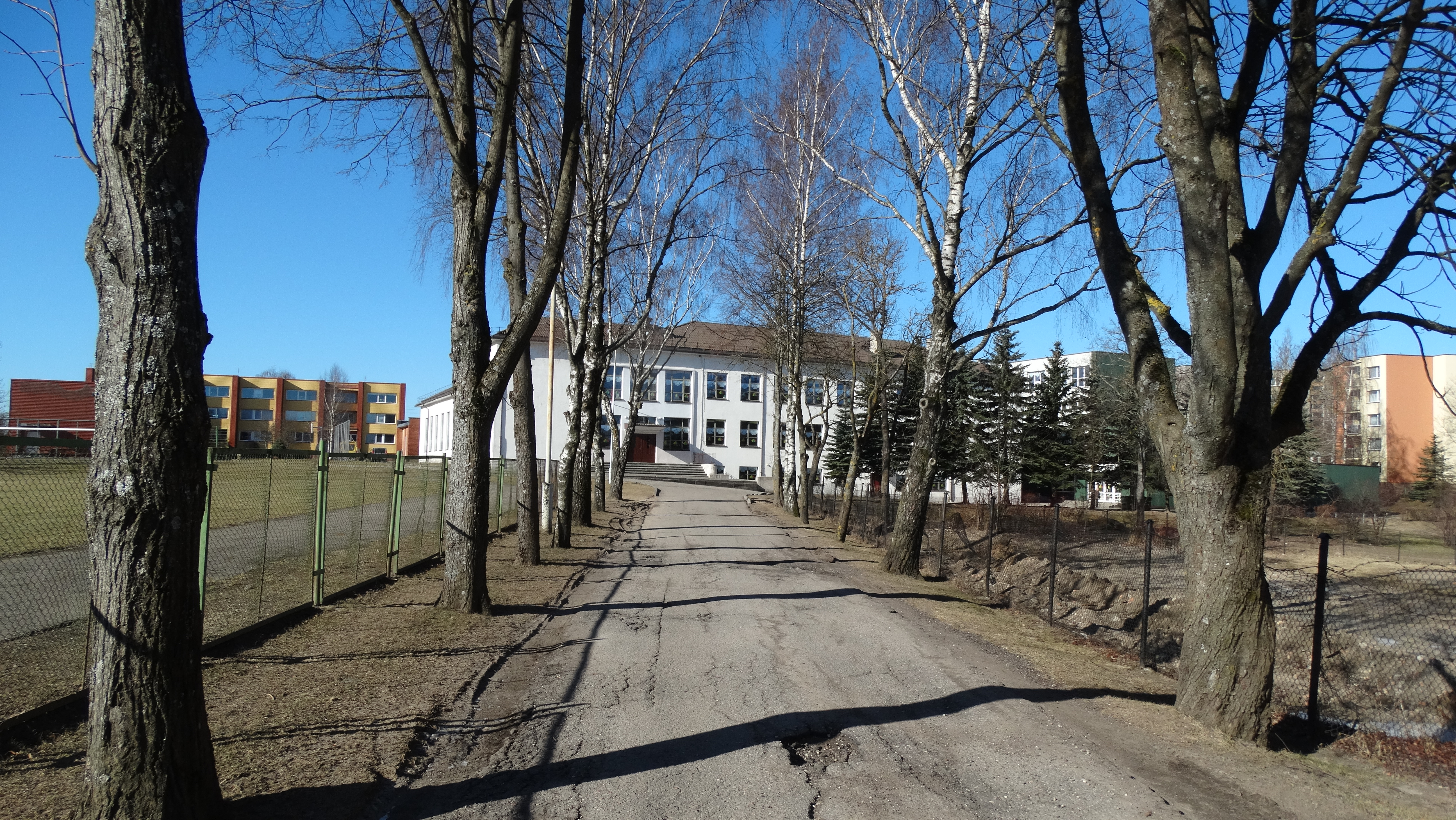 Atžalynas school, Telšiai, Lithuania